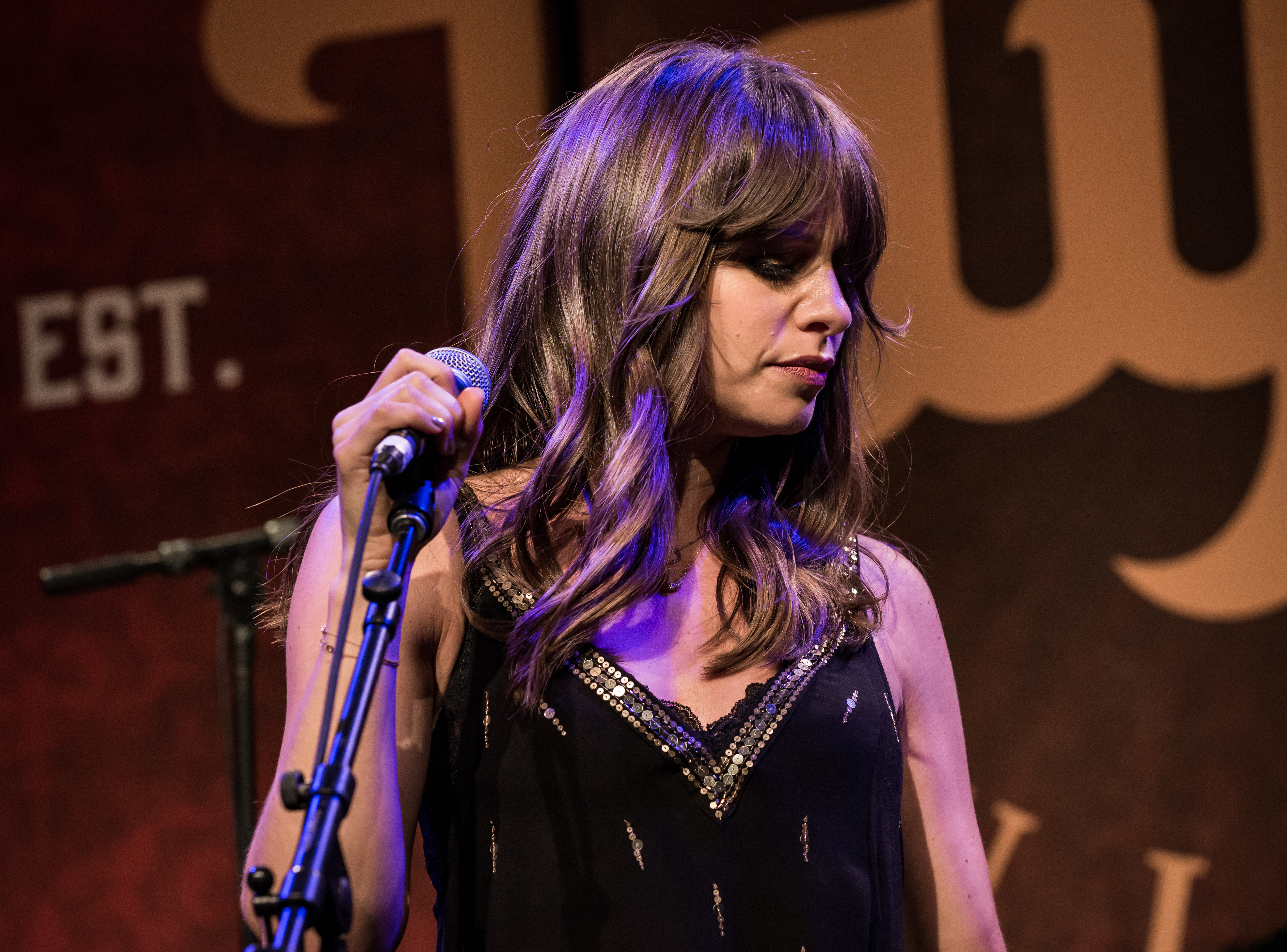 Jenn Korbee performing live at NAMM (Winter), January 2017.